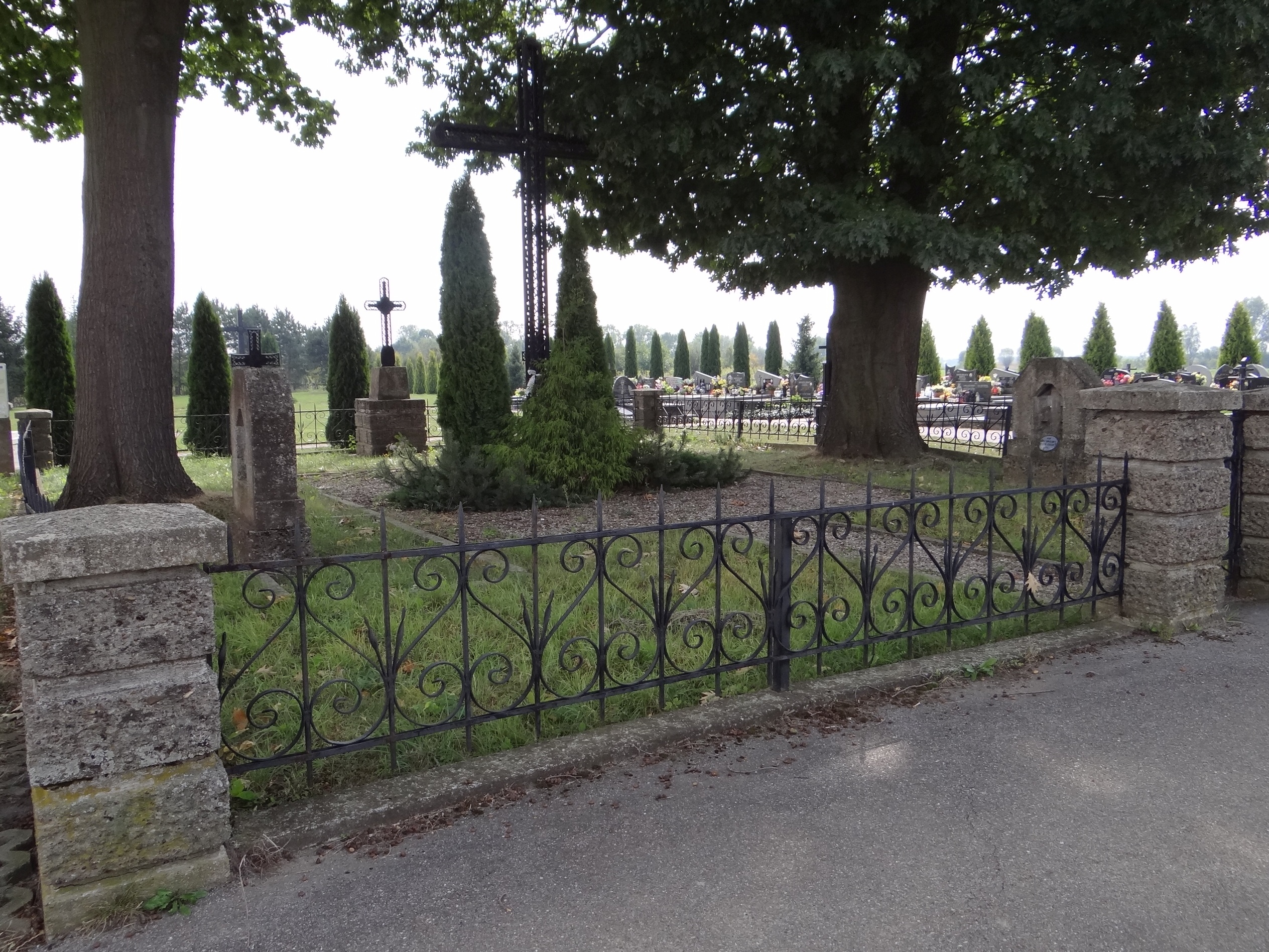 World War I Cemetery nr 211 in Siedlec